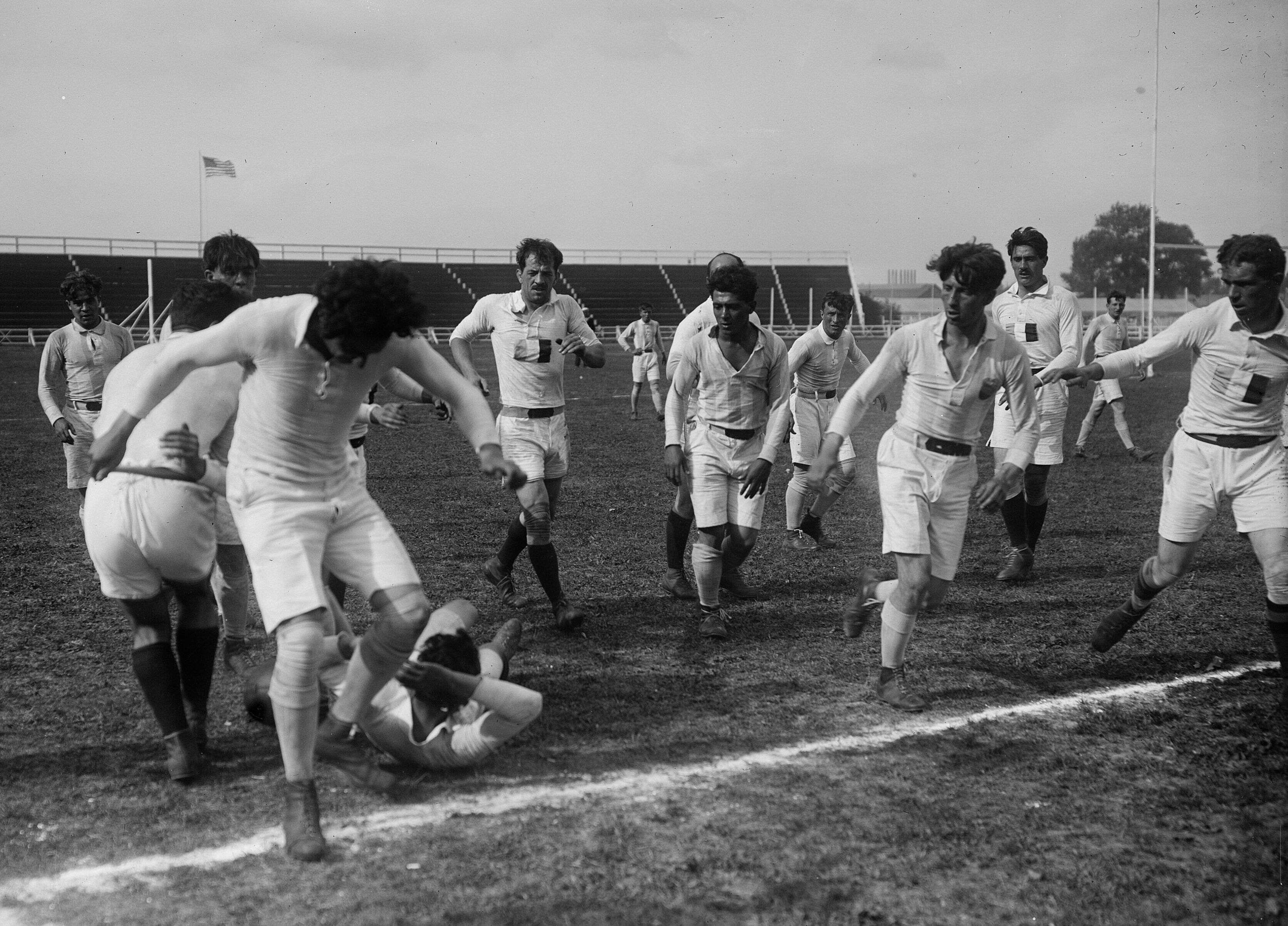 Rugby union match at the Inter-Allied Games of 1919: Romania vs. France (France up by 48 to 5). Stade de Colombes (Stade Olympique Yves-du-Manoir), Colombes, France.